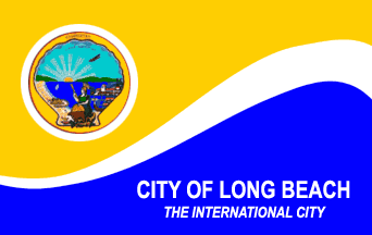 Flag of Long Beach, California